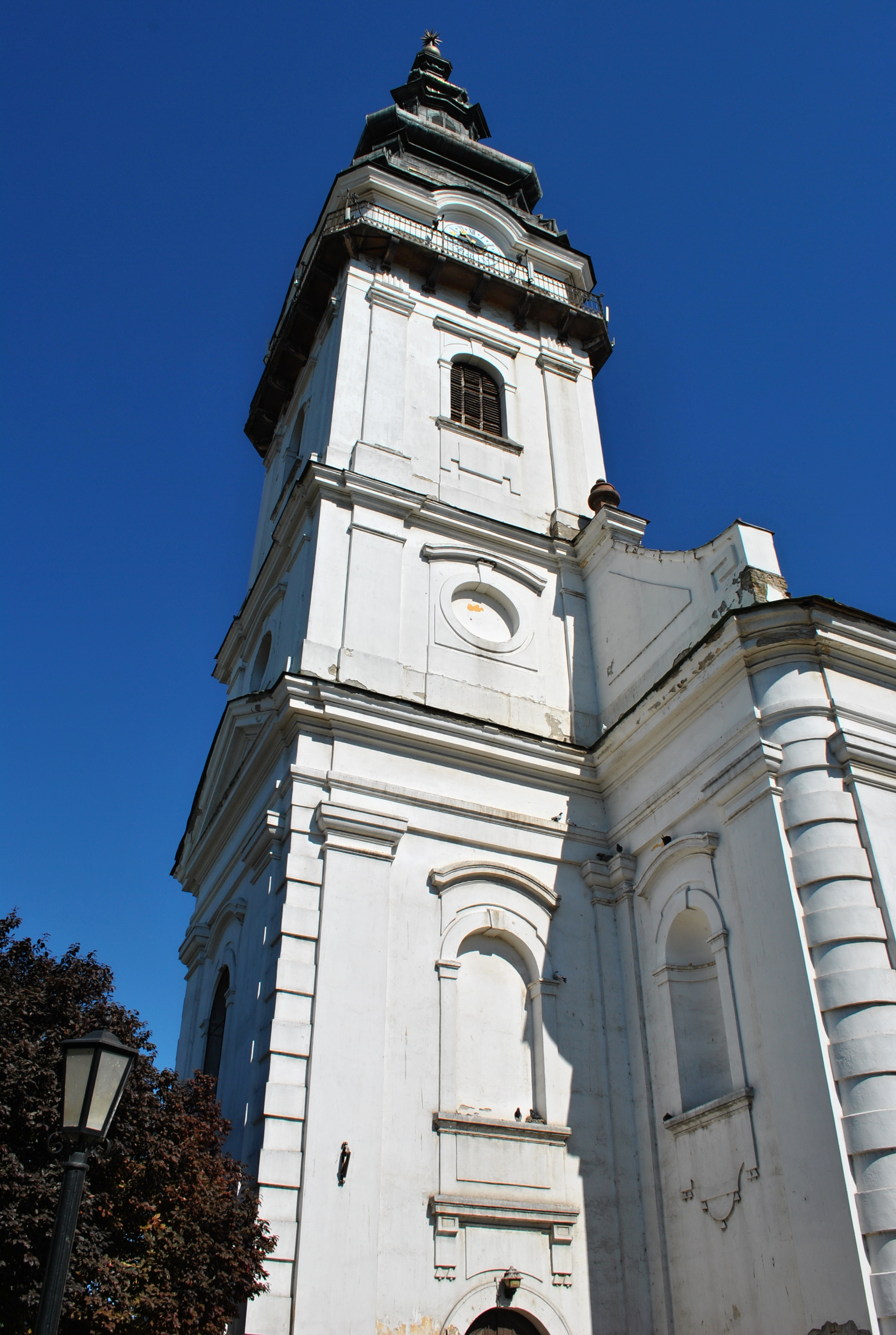 Tótkomlós, Hungary - tower of the Evangelical church